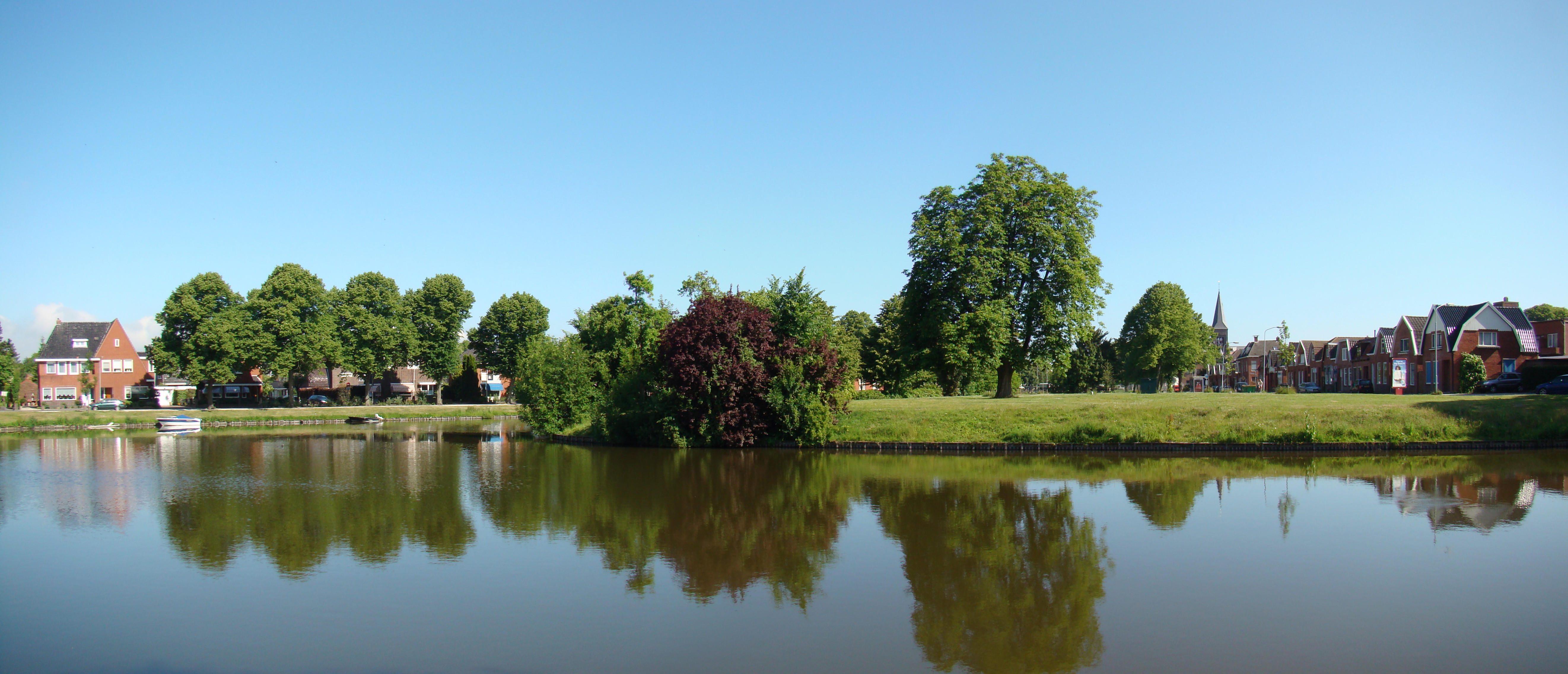 Panoramic view on Delfzijl